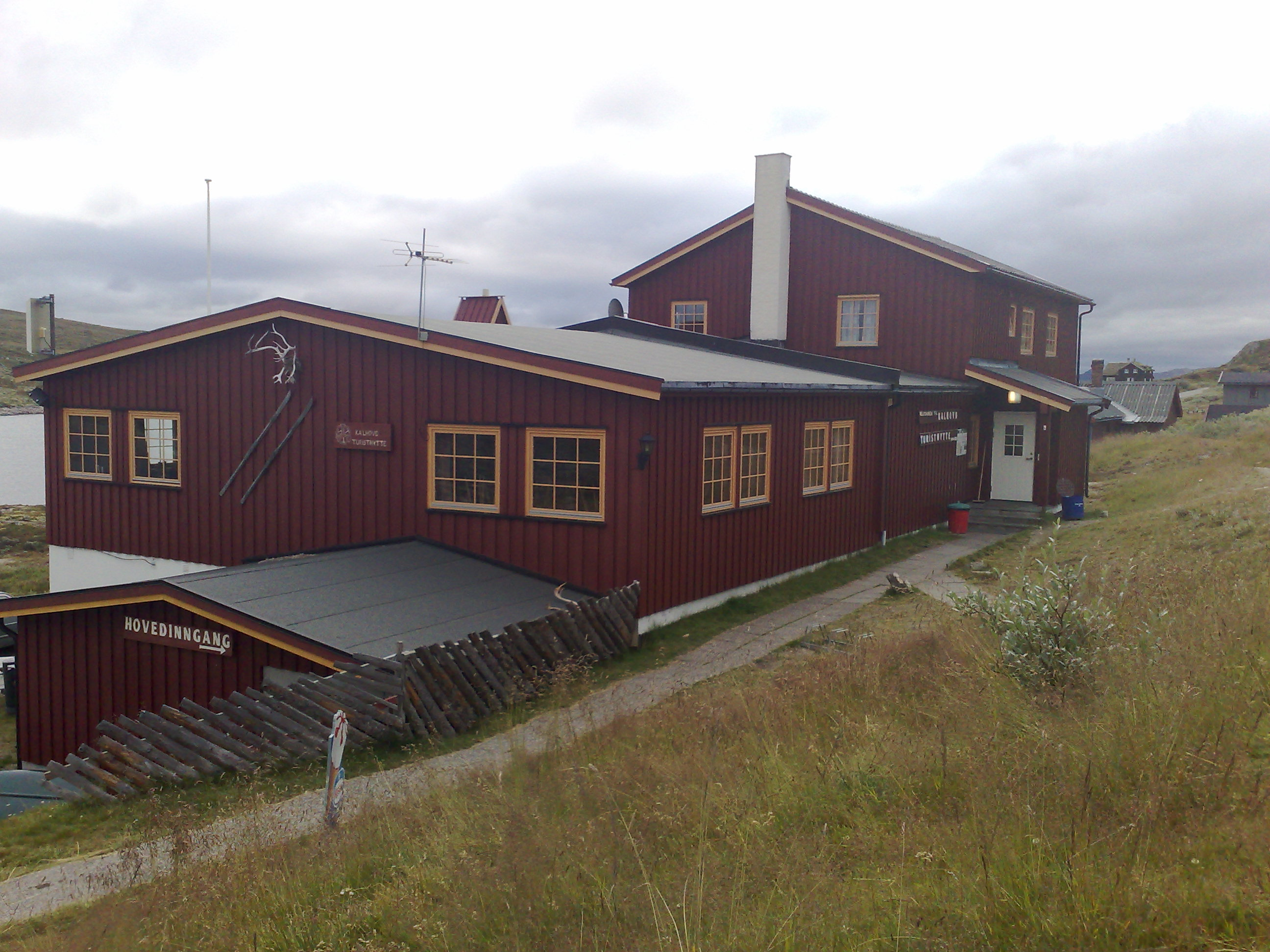 Kalhovd Tourist Cabin, main entrance, fall